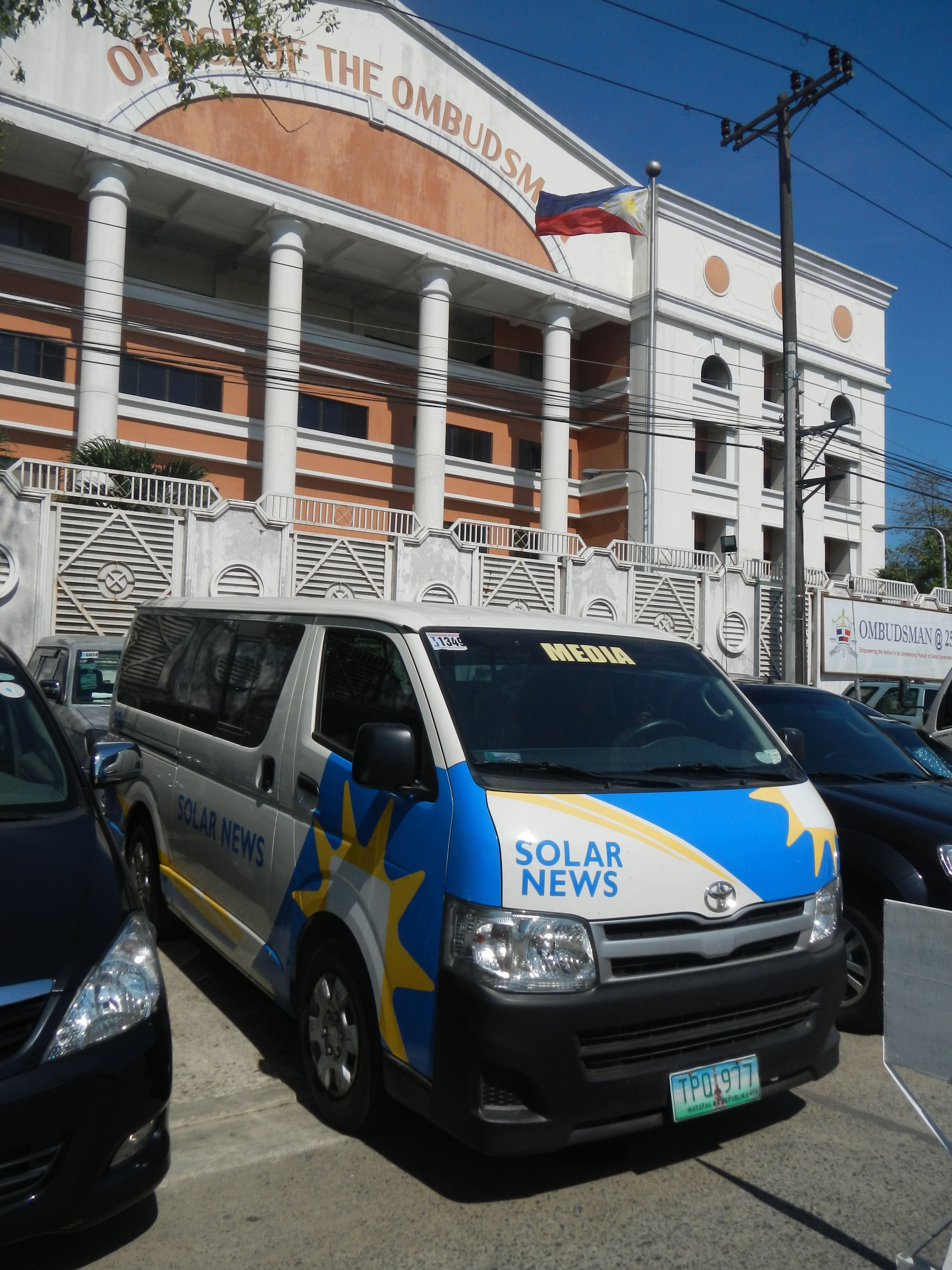 Ombudsman of the Philippines [1] (Office of the Ombudsman Building OMB - Central Office Ombudsman Building Agham Road, North Triangle Diliman, Quezon City 1101).